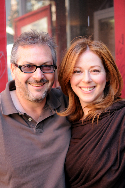 DeDe Lahman and chef Neil Kleinberg at the Clinton Street Baking Co.